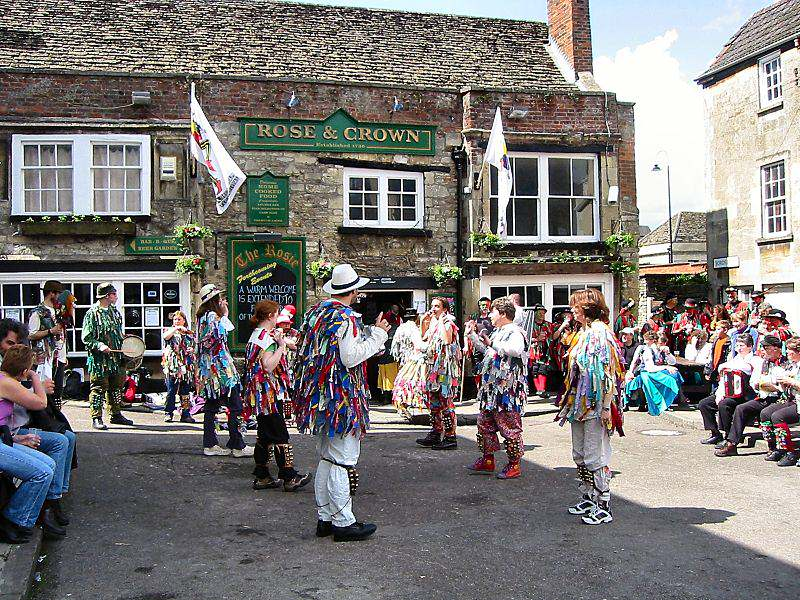 The Chippenham Folk Festival; Rag Morris, the University of Bristol Morris side, dancing in front of the Rose and Crown, Chippenham.